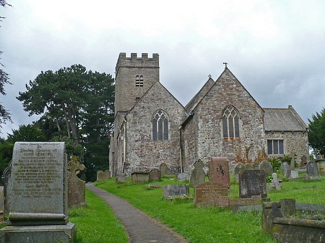 St Mellons Parish Church [1] Dating from the 14th century but on the site of an earlier Norman building. This is the view from the east.